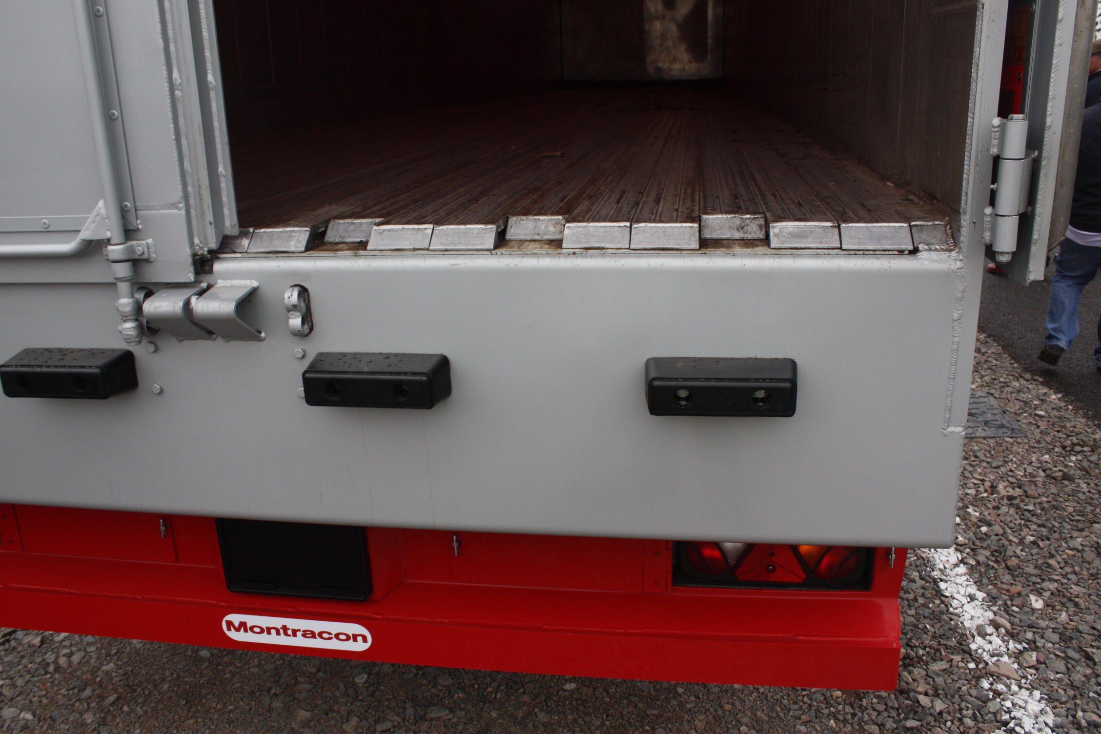 The moving floor in a Montracon bulk trailer (a non-tipping bulker) at the Site Equipment Demonstration (SED) show 2009, England